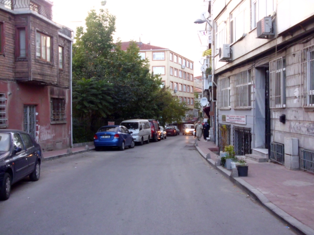 kgumruk4